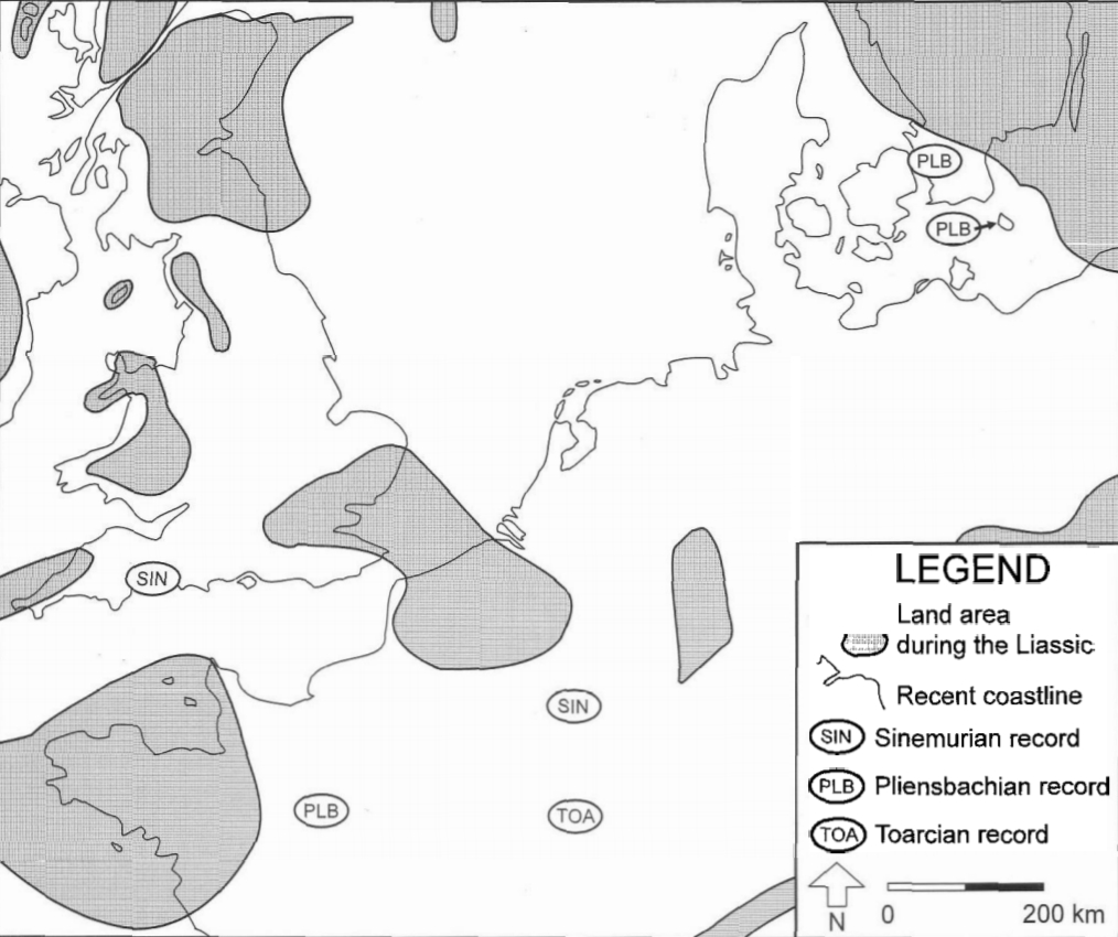 Early Jurassic paleogeographic map of northwest Europe with the occurrences of Agaleus